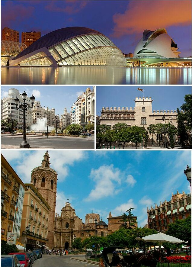 Montages of Valencia.